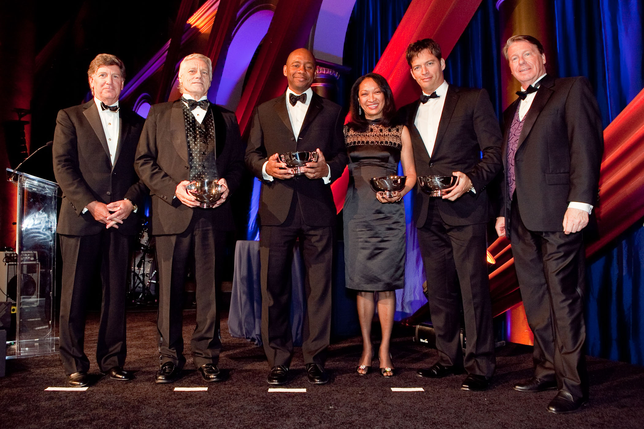 At the 2010 Honor Award ceremony at the National Building Museum Michael Glosserman (far L), chair, National Building Museum Board of Trustees, and Chase Rynd, president and executive director, National Building Museum (far R), stand with Honor Award 2010 recipients and founders of New Orleans Habitat Musicians’ Village: (from L to R) Jim Pate, Branford Marsalis, Ann Marie Wilkins, and Harry Connick, Jr. The honorees were chosen for their commitment to innovation, community and cultural development, education, and sustainable practice.